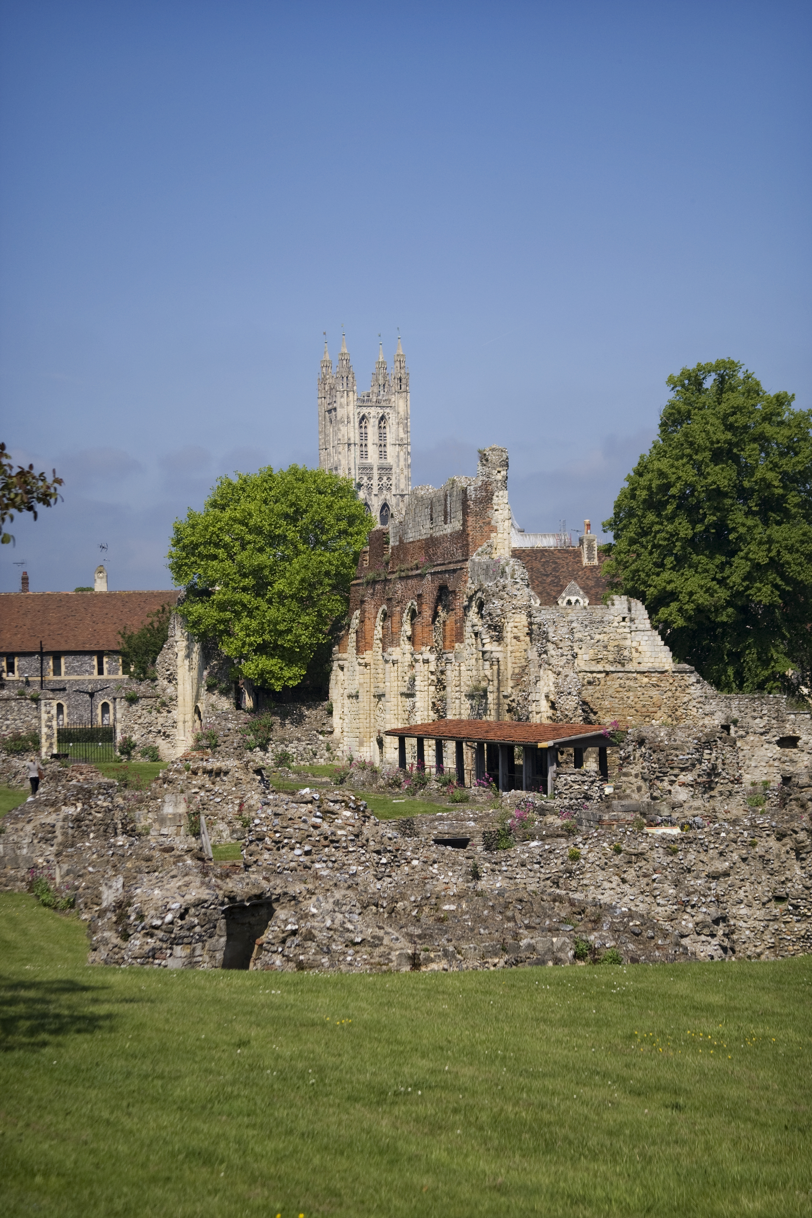 St Augustine's Abbey, Canterbury - view of the ruins of the rotunda and nave of the Church of Sts Peter and Paul with Canterbury Cathedral in the background